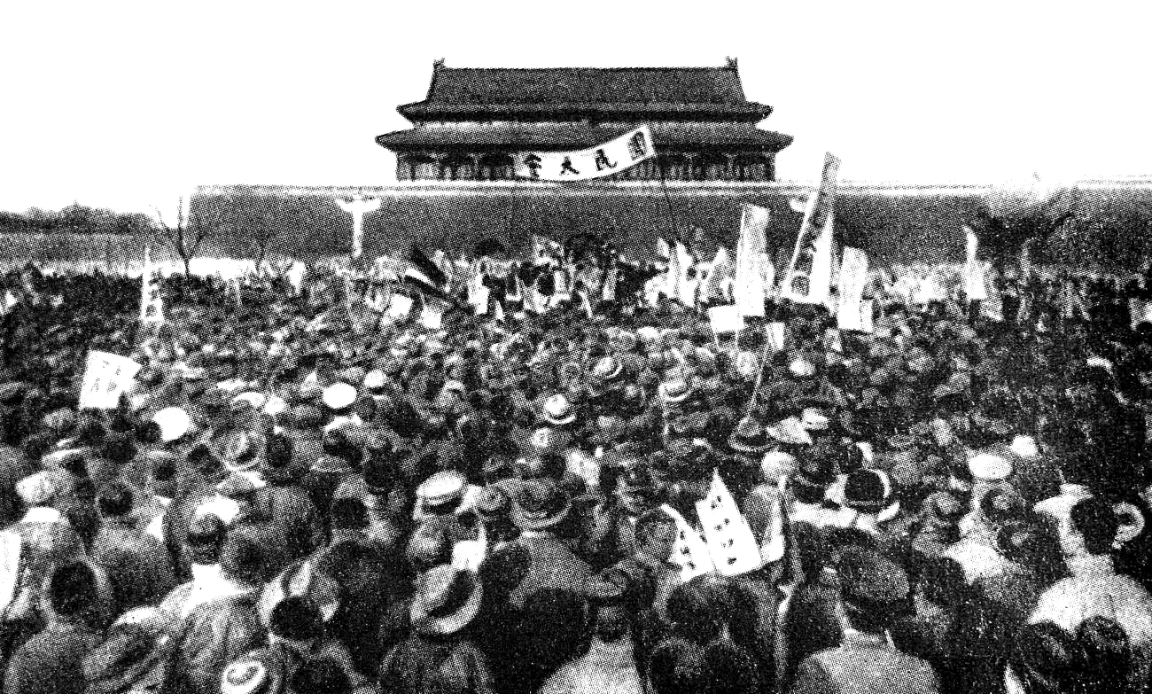 Protestors at the May Fourth Movement, dissatisfied with Article 156 of the Treaty of Versailles for China (Shandong_Problem).